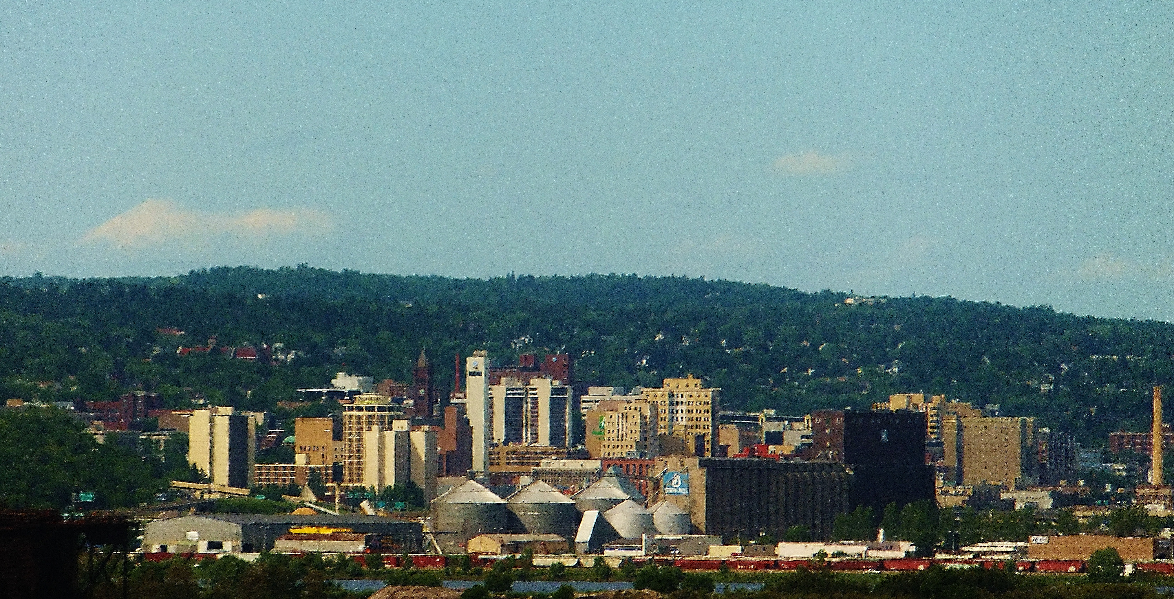 The Duluth, Minnesota skyline facing northwest